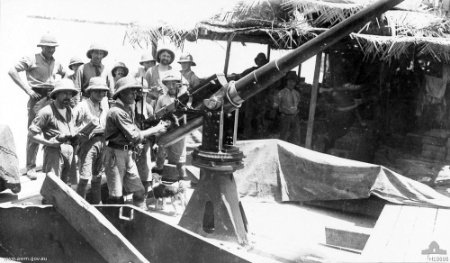 AWM caption reads : "Mesopotamia, Iraq. A group of British Army troops who operate an anti-aircraft gun from a barge." Comment : the gun is believed to be a QF 12 pounder 12 cwt on an improvised high-angle mounting. The men behind the gunner hold a shell and a cartridge.